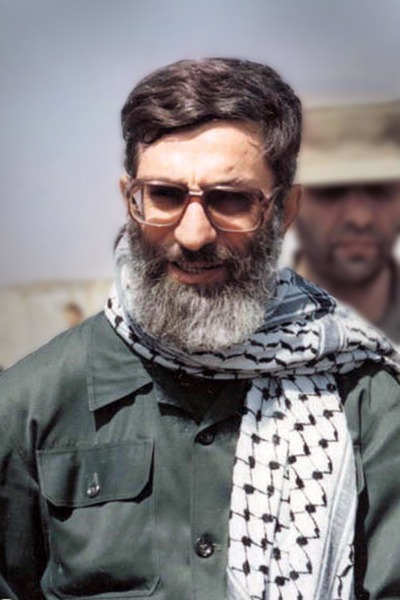 Ayatollah Ali Khamenei Visiting Division 31 of Ashura During the presidency in 1988